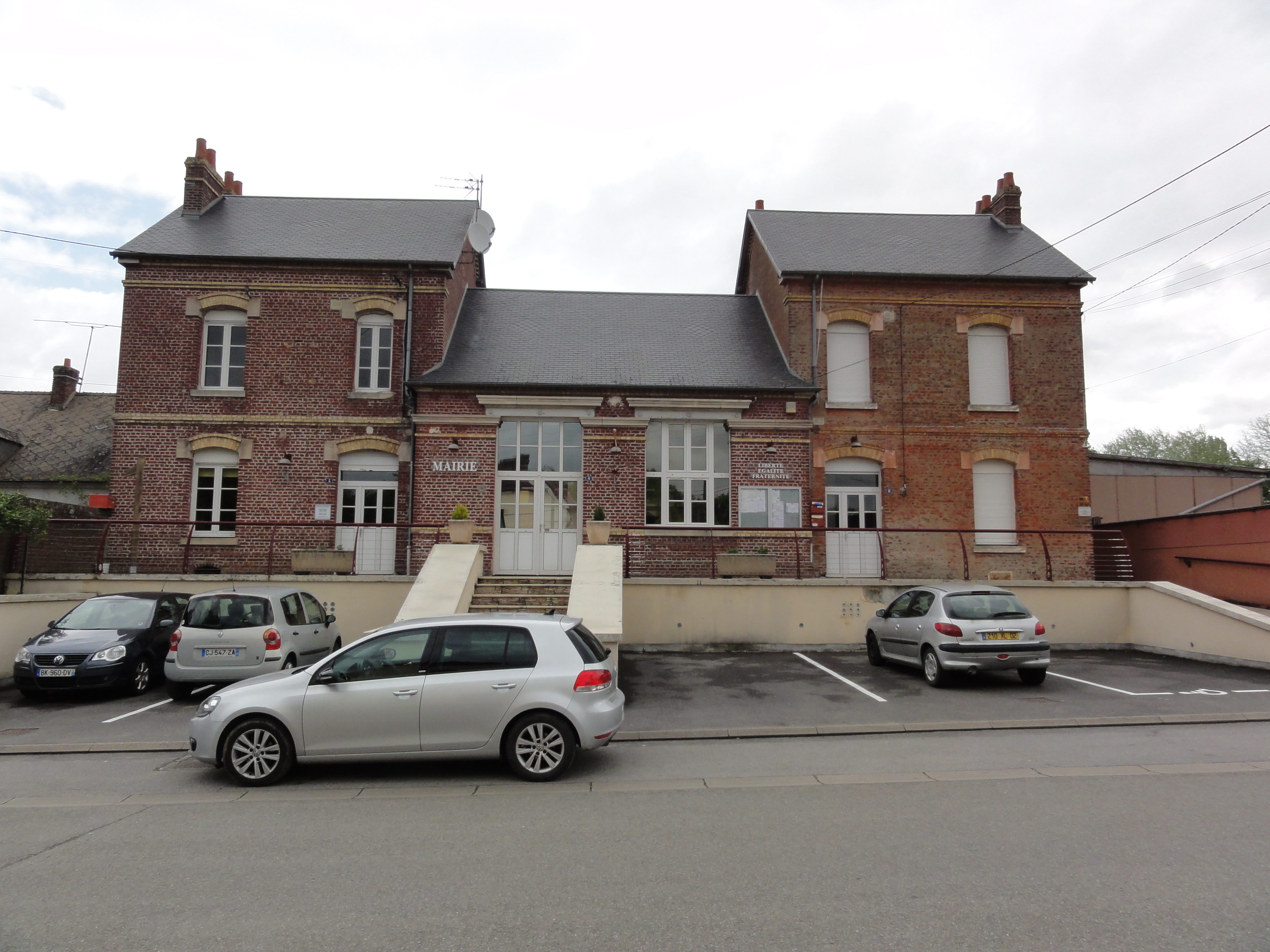 Fourdrain (Aisne) mairie - école